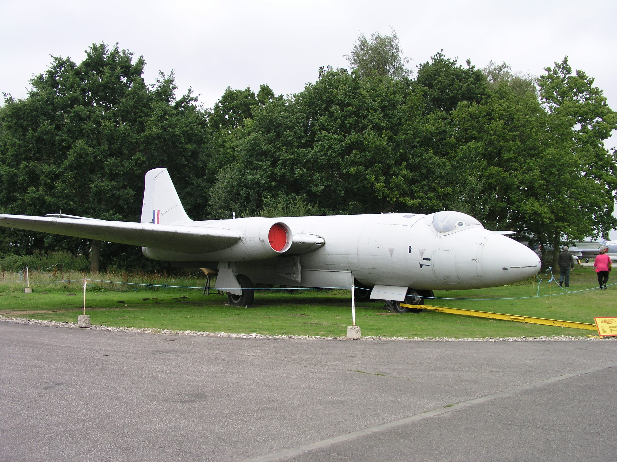 English Electric Canberra T4 at Elvington Air Museum